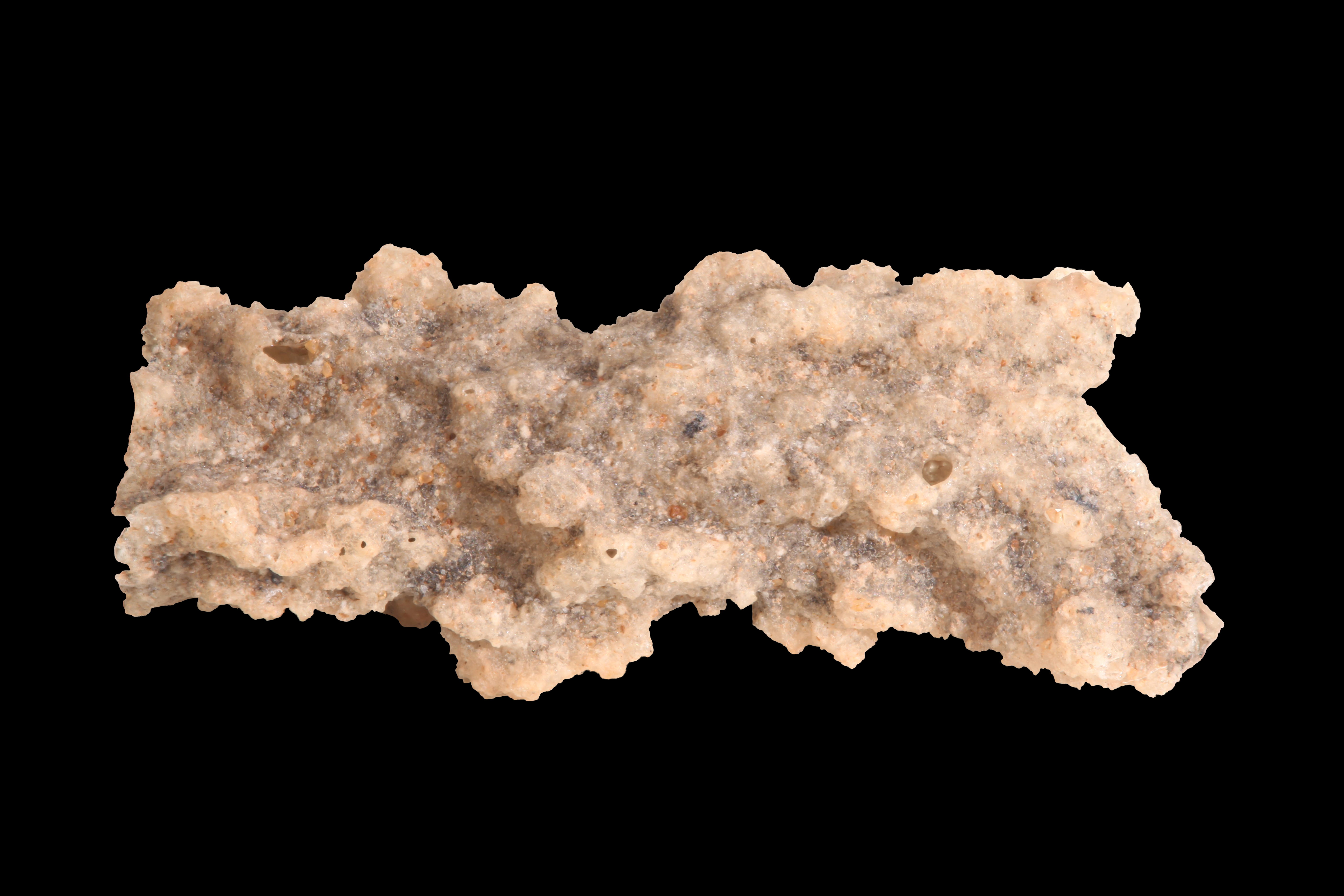 Fulgurite, 30x15 mm, Lbian desert, Sourthern-Western Egypt.